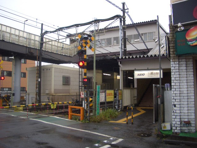 Mitakadai Station entrance